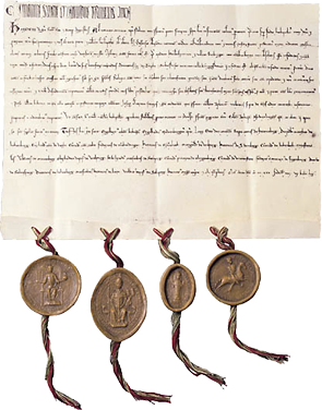 Heilbronn Urkunde Oppidum Der Nordhäuser Vertrag 1225.png